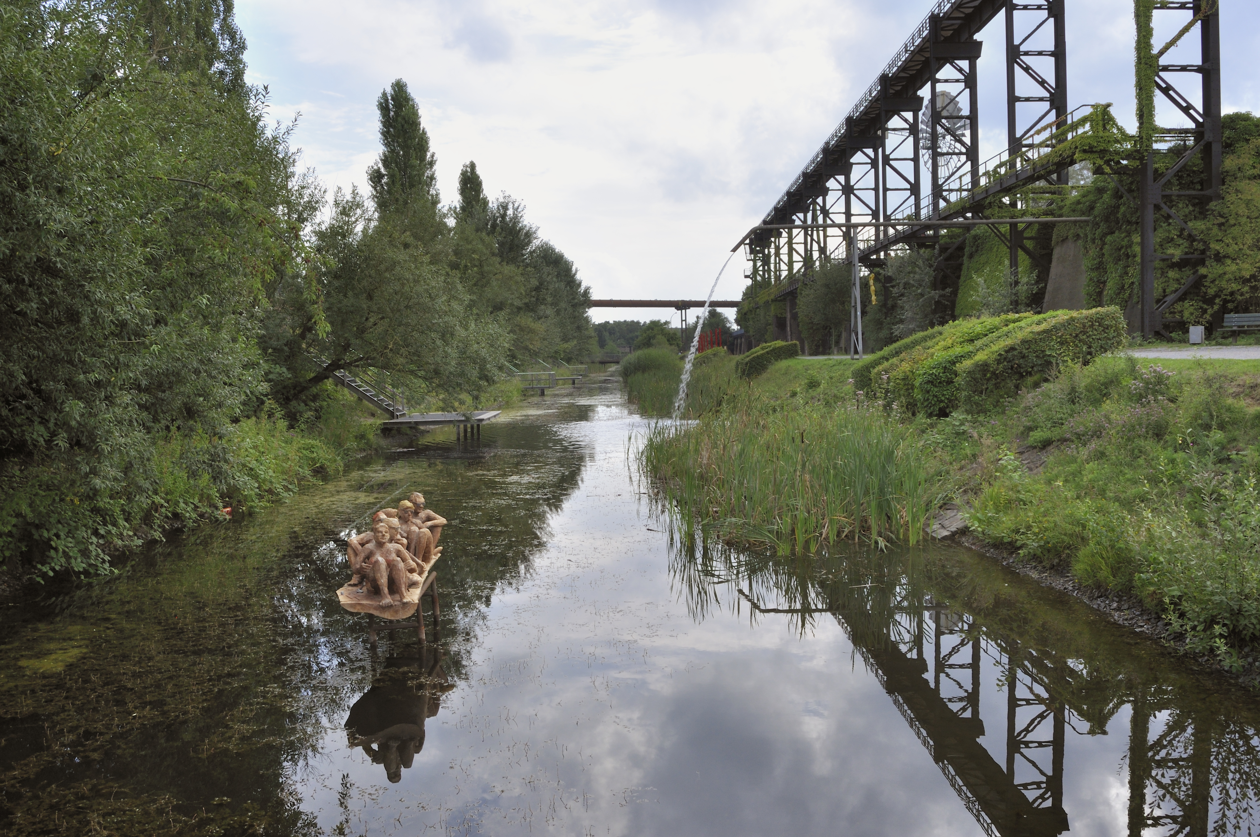 Picture taken in Duisburg while summer meetup.